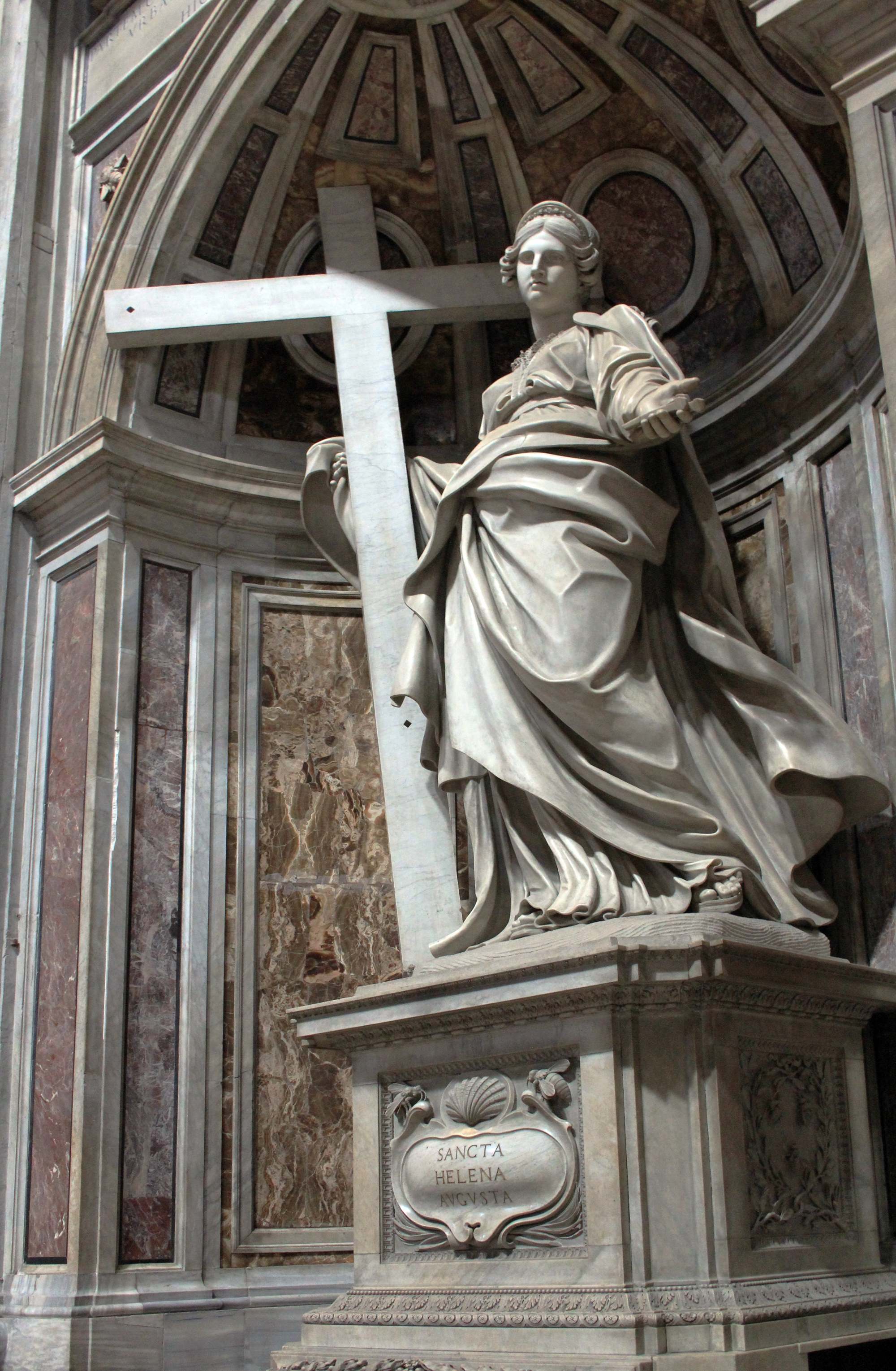 Statue Saint Helena of Constantinople by Andrea Bolgi in St. Peter's Basilica in Vatican City, Rome